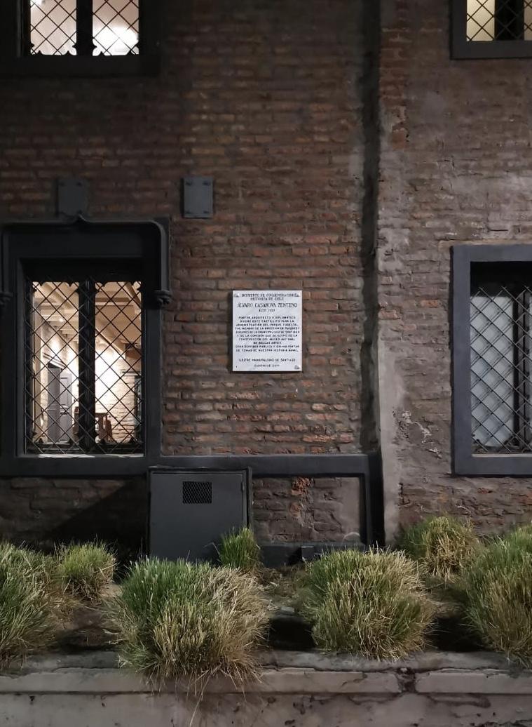 Tribute of December 2014 of the Illustrious Municipality of Santiago to: Álvaro Casanova Zenteno, was born in Santiago de Chile on November 21, 1857 and died in the same city on May 25, 1939. He was a prominent landscape painter and Chilean sailor.His art is defined in the realism retailer, expressionist, classicism and romanticism